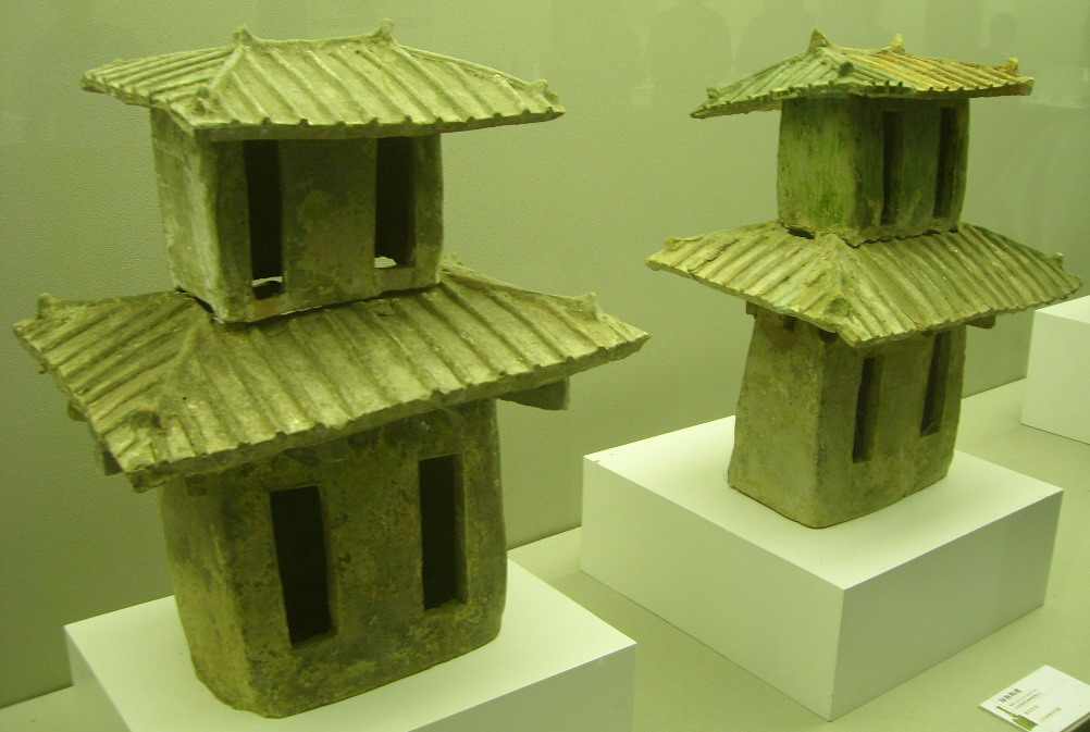 pottery figurine model buildings of Eastern Han Dynasty, Shandong Museum, Jinan